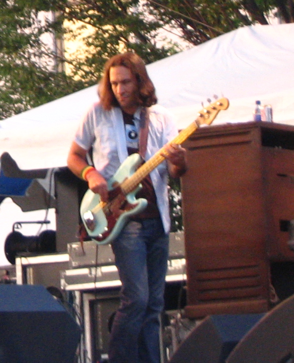 Andy Hess performing with Gov't Mule at City Stages in Birmingham, Alabama, on June 19, 2005.